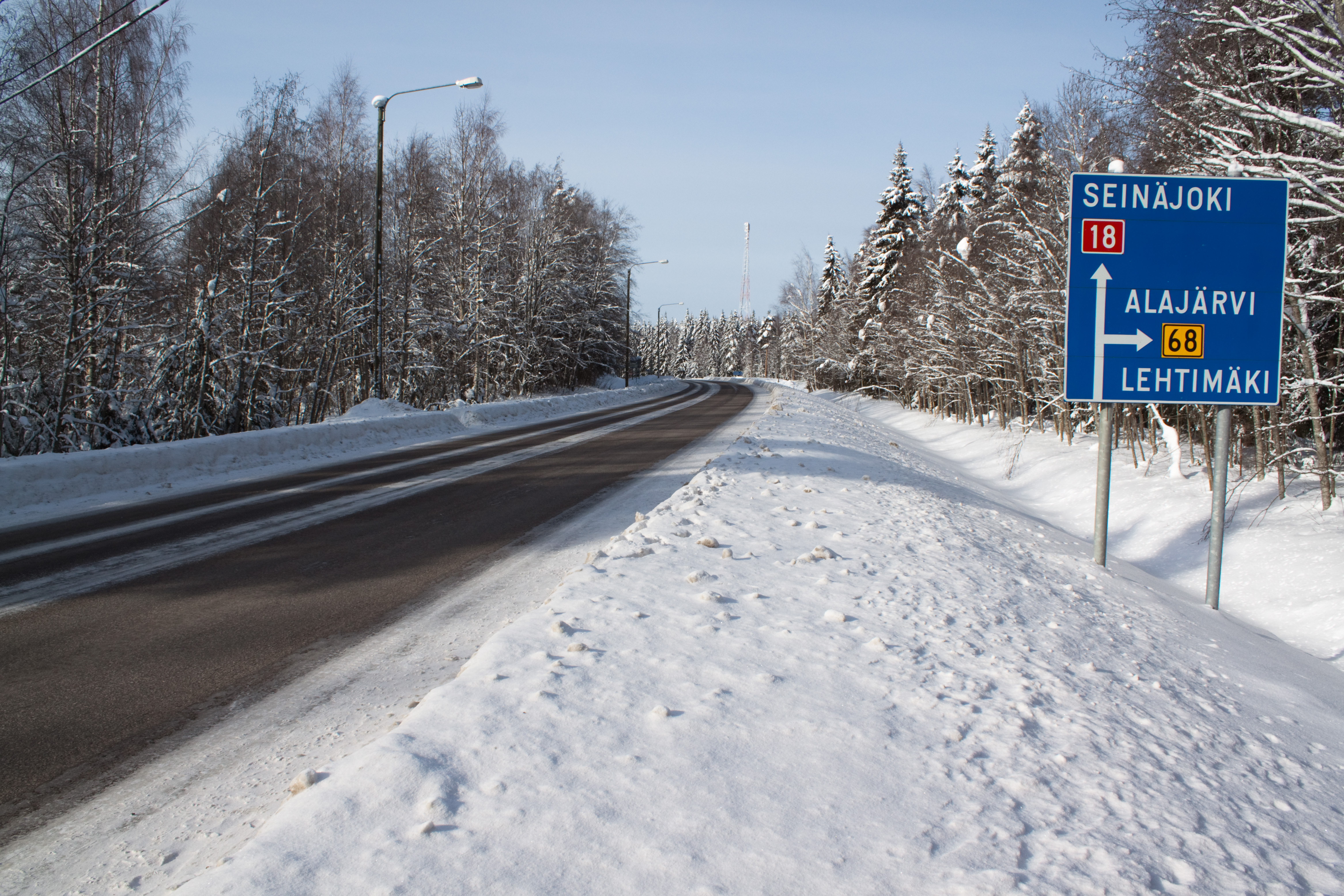 Highways 18 and 68 in Ähtäri, Finland